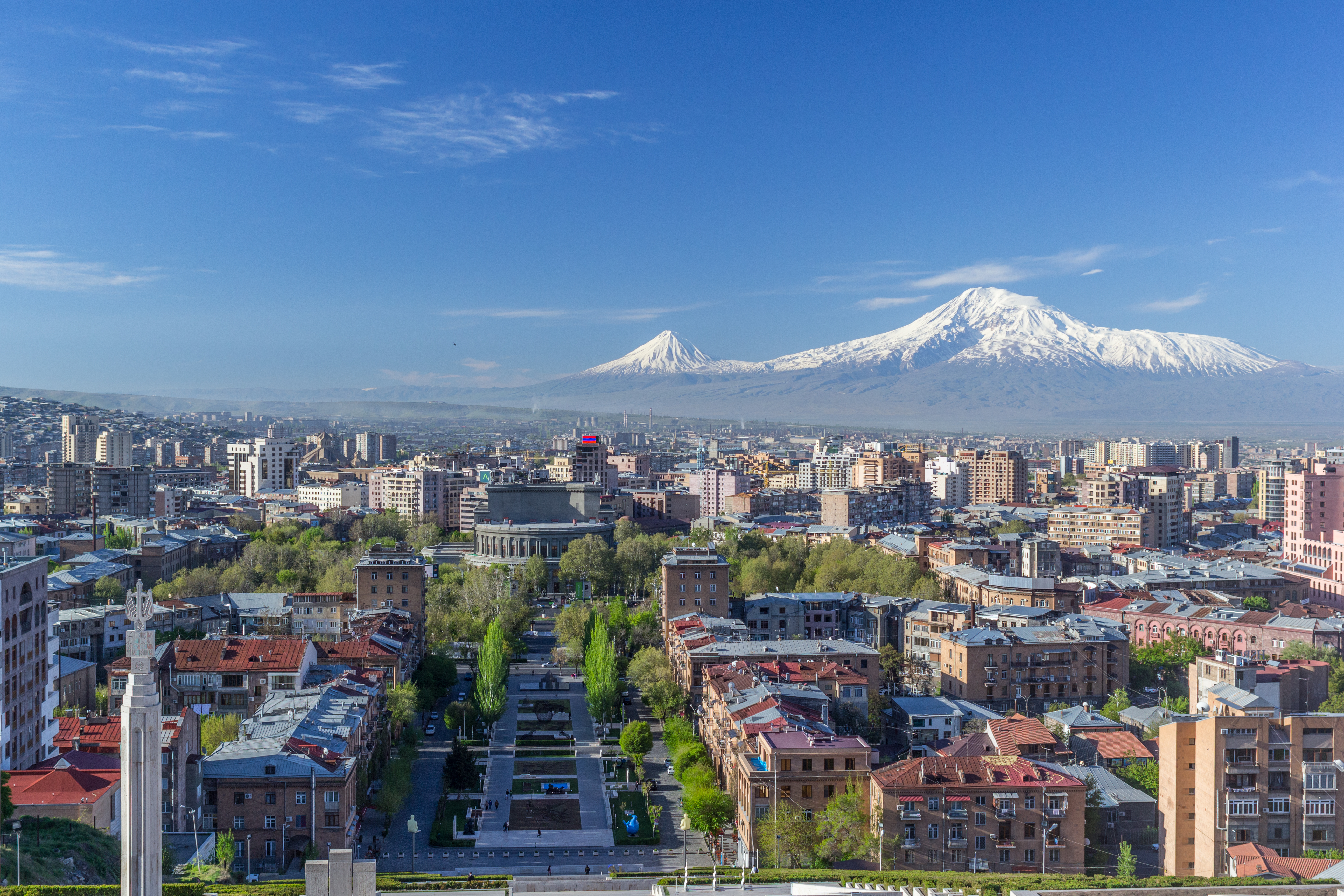 Mount Ararat and the Yerevan skyline in spring, as viewed from the steps of the Cascade (the Cafesjian Center for the Arts). The Opera house is visible in the center.